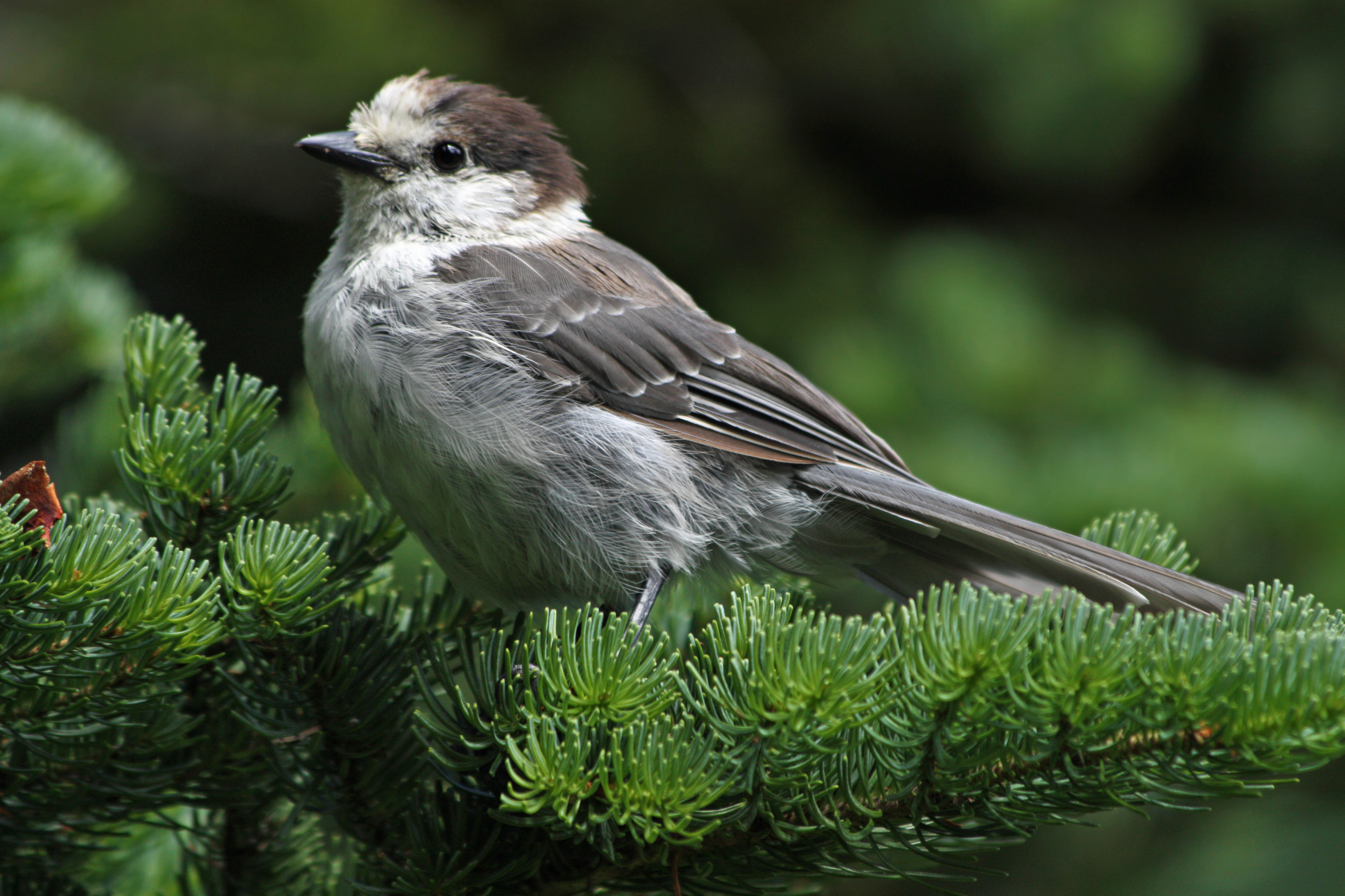 Gray Jay on Subalpine Fir (Abies lasiocarpa)